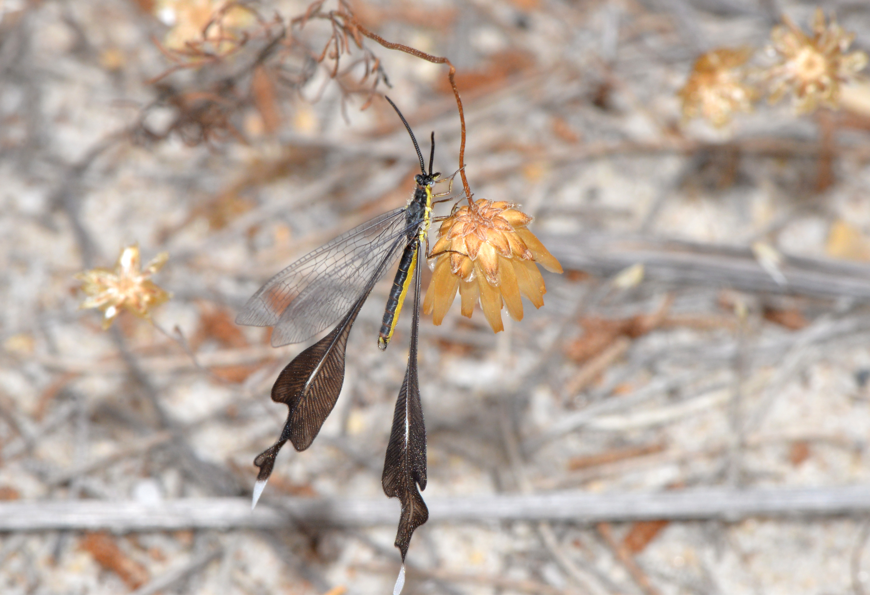 Chasmoptera hutti resting on a flower